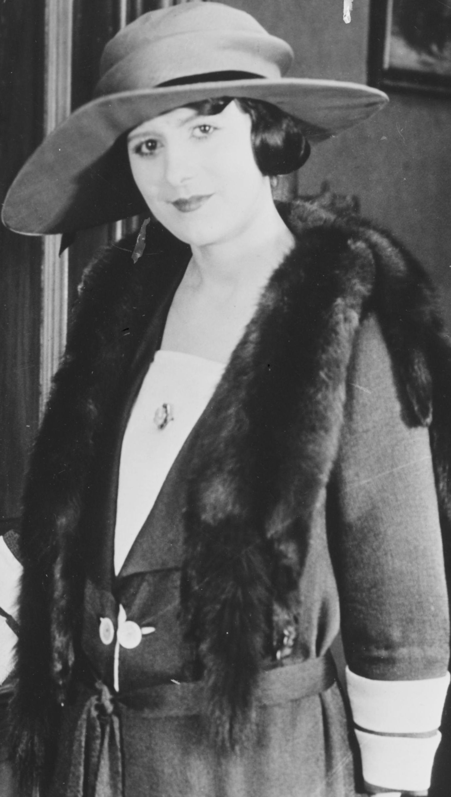 Alice Calhoun